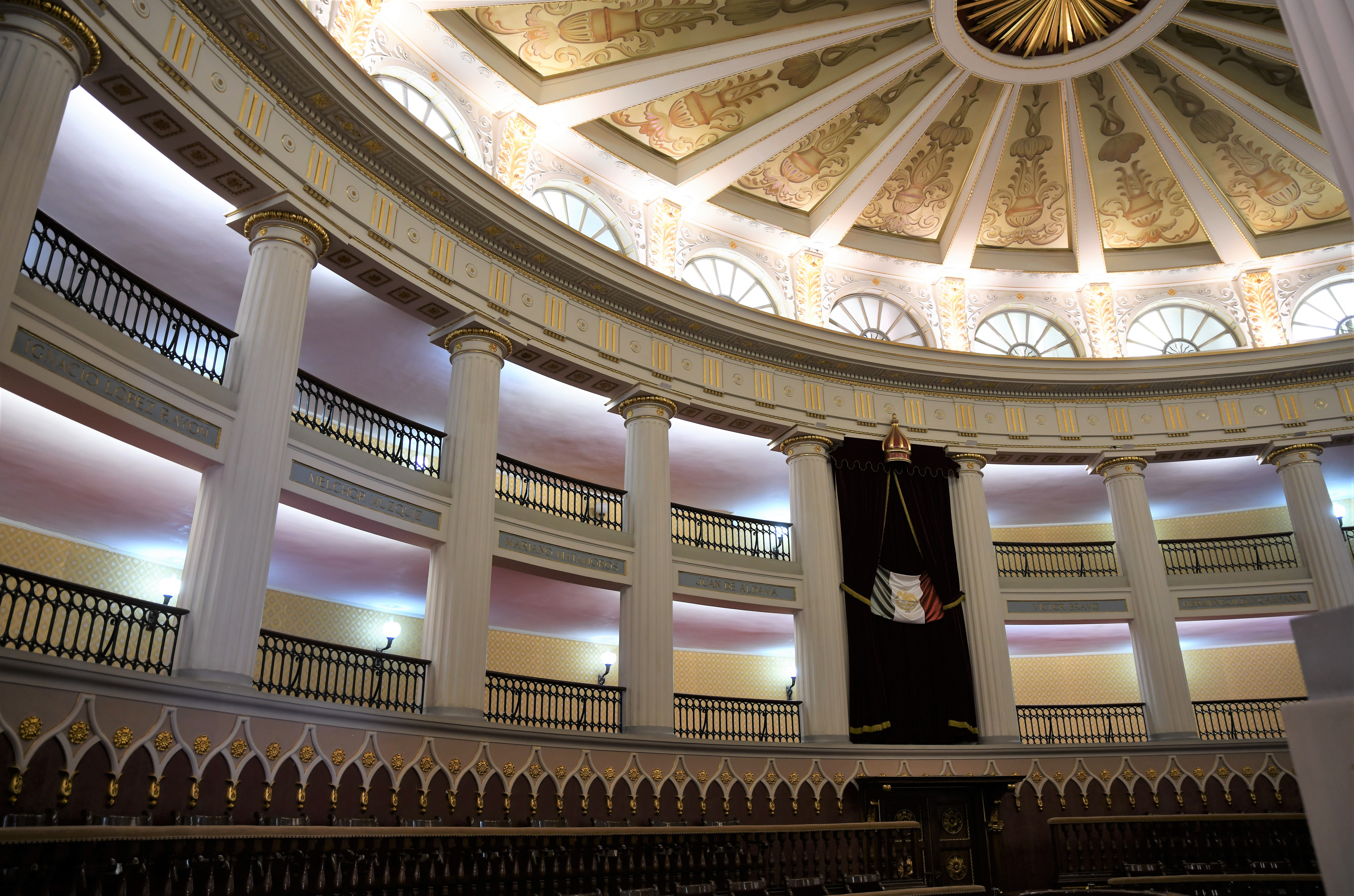 Inside Parlamenatario